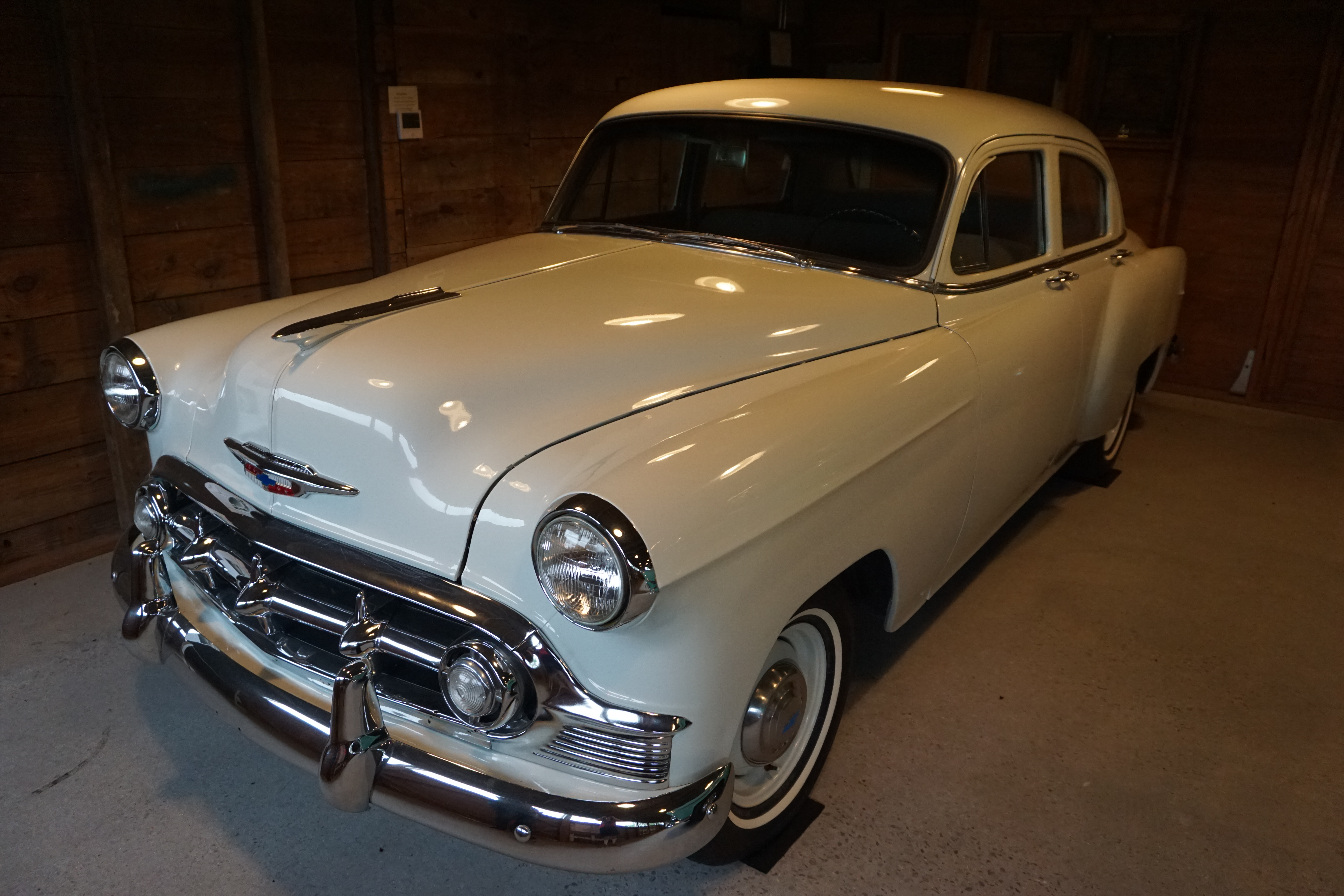 Sam Rayburn's 1953 Chevrolet 150 at the Sam Rayburn House Museum in Bonham, Texas (United States).